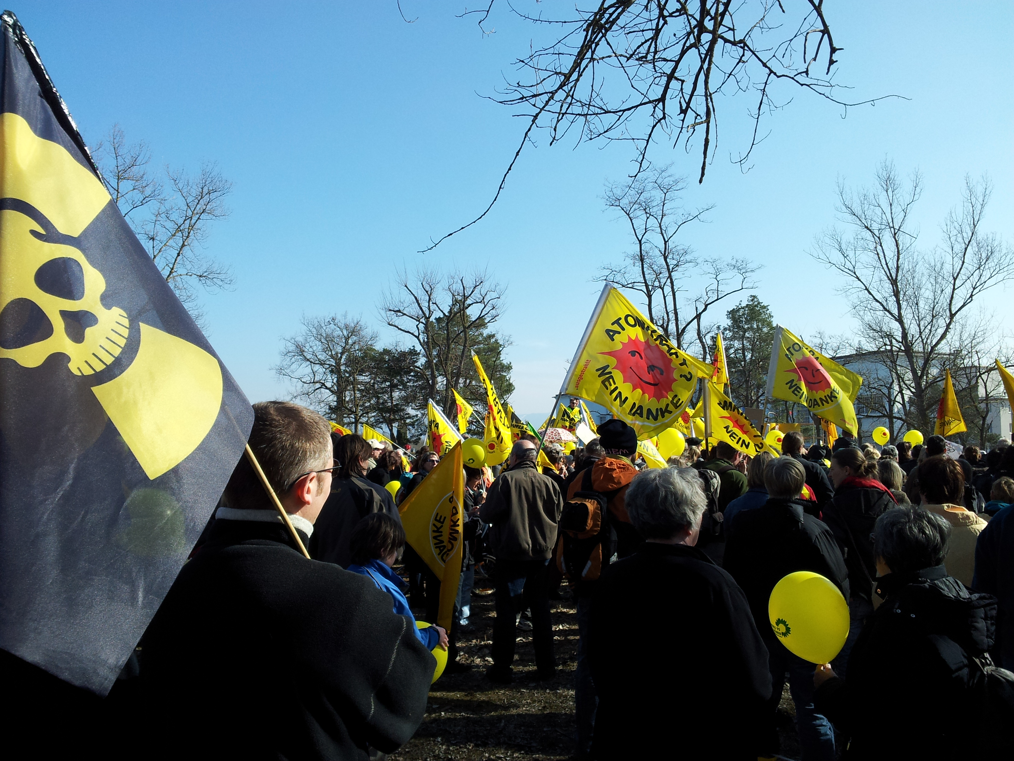 Protest against the french nuclear power plant Fessenheim one year after the accident in Fukushima